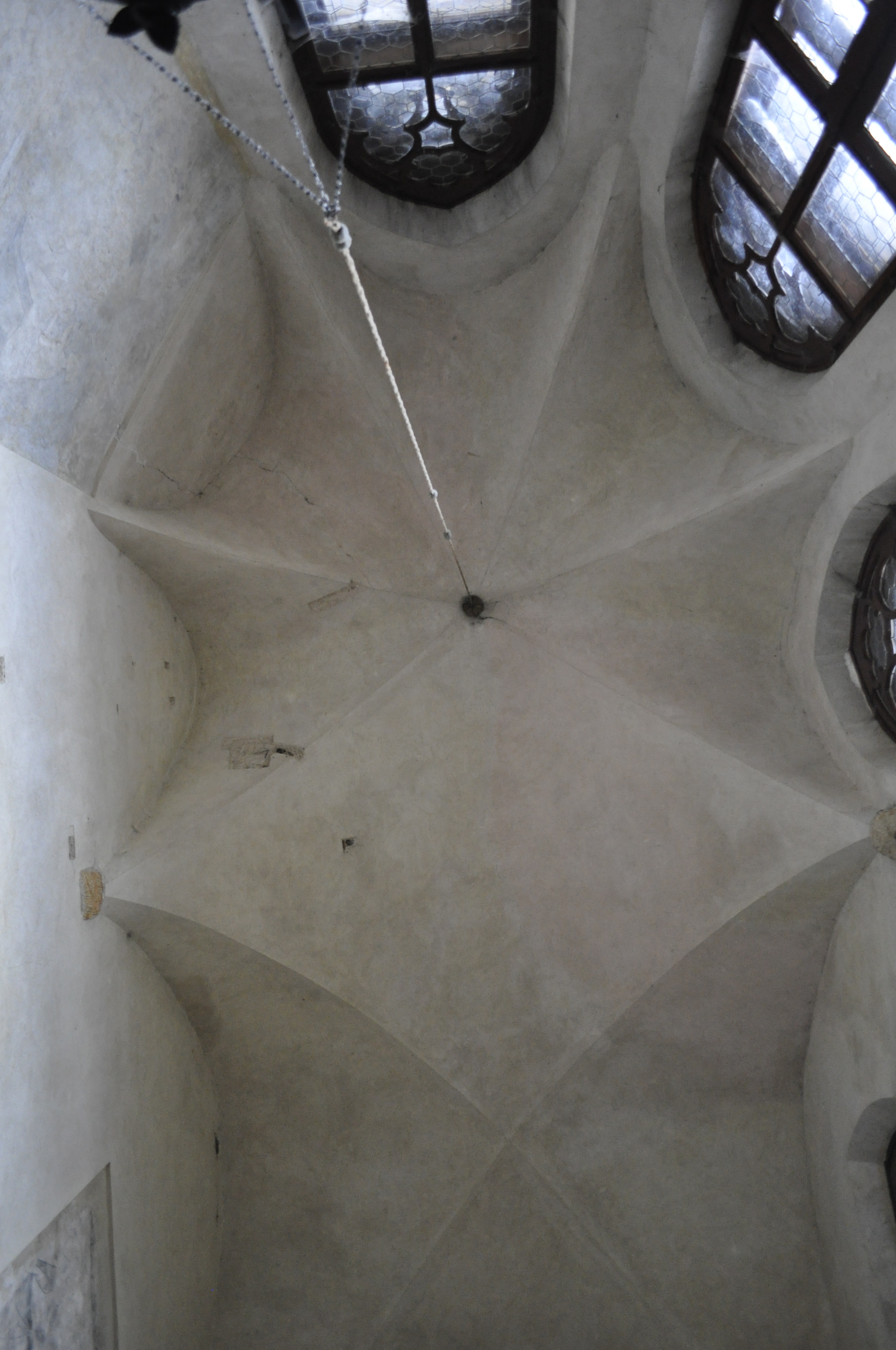 Klenba kaple hradu houska